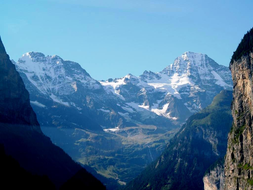 Grosshorn and Breithorn from Lauterbrunnental, Switzerland